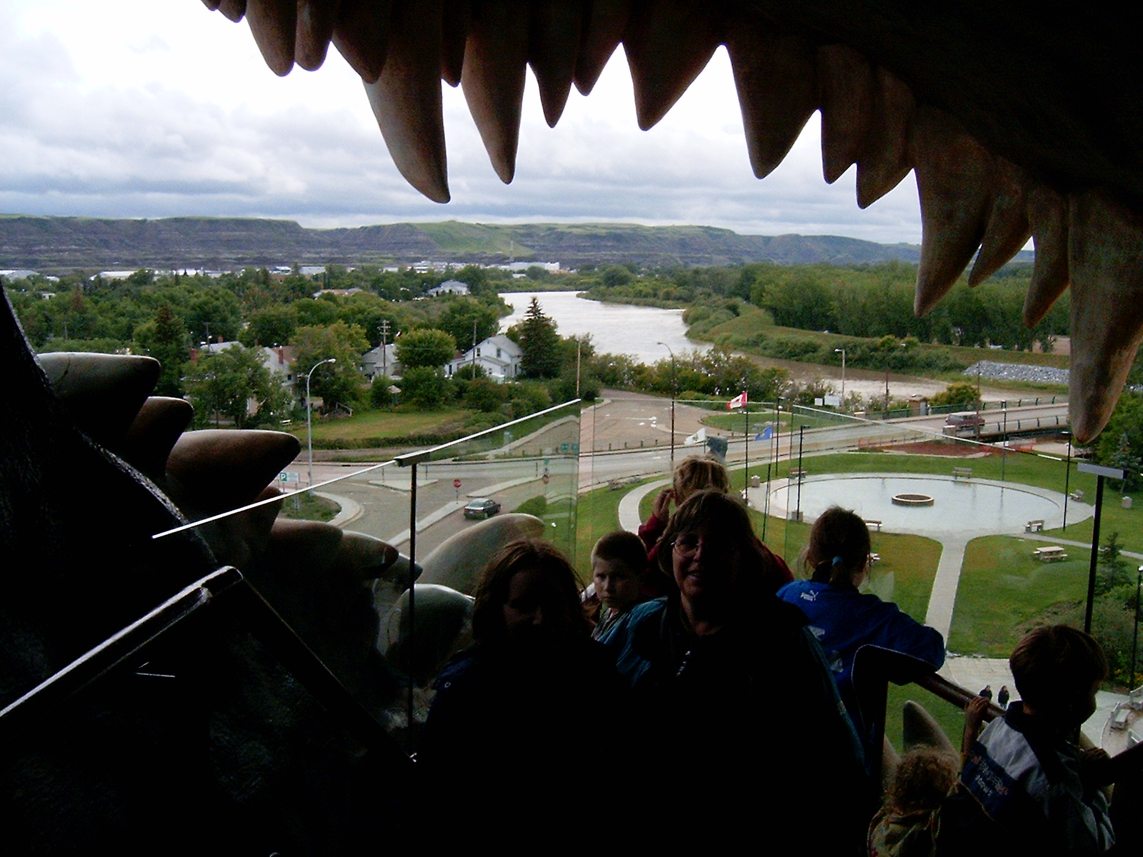 View out of World's Largest Dinosaur